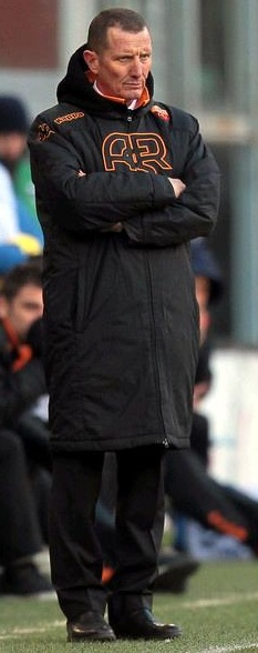 Aurelio Andreazzoli, AS Roma